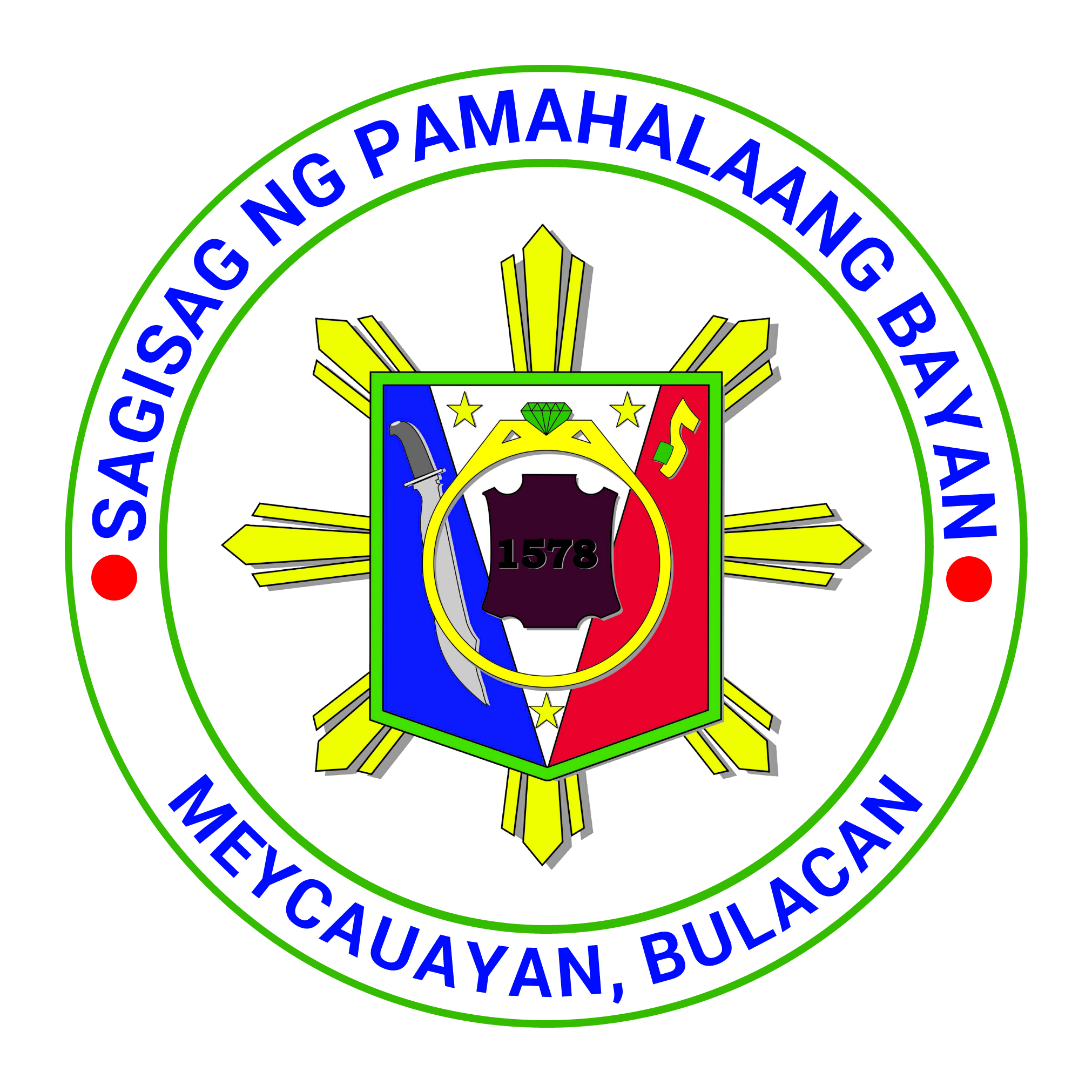 The official municipal seal of Meycauayan was used until 2006. Filipino: Ang opisyal na munisipal na selyo ng Meycauayan ay ginamit hanggang 2006.